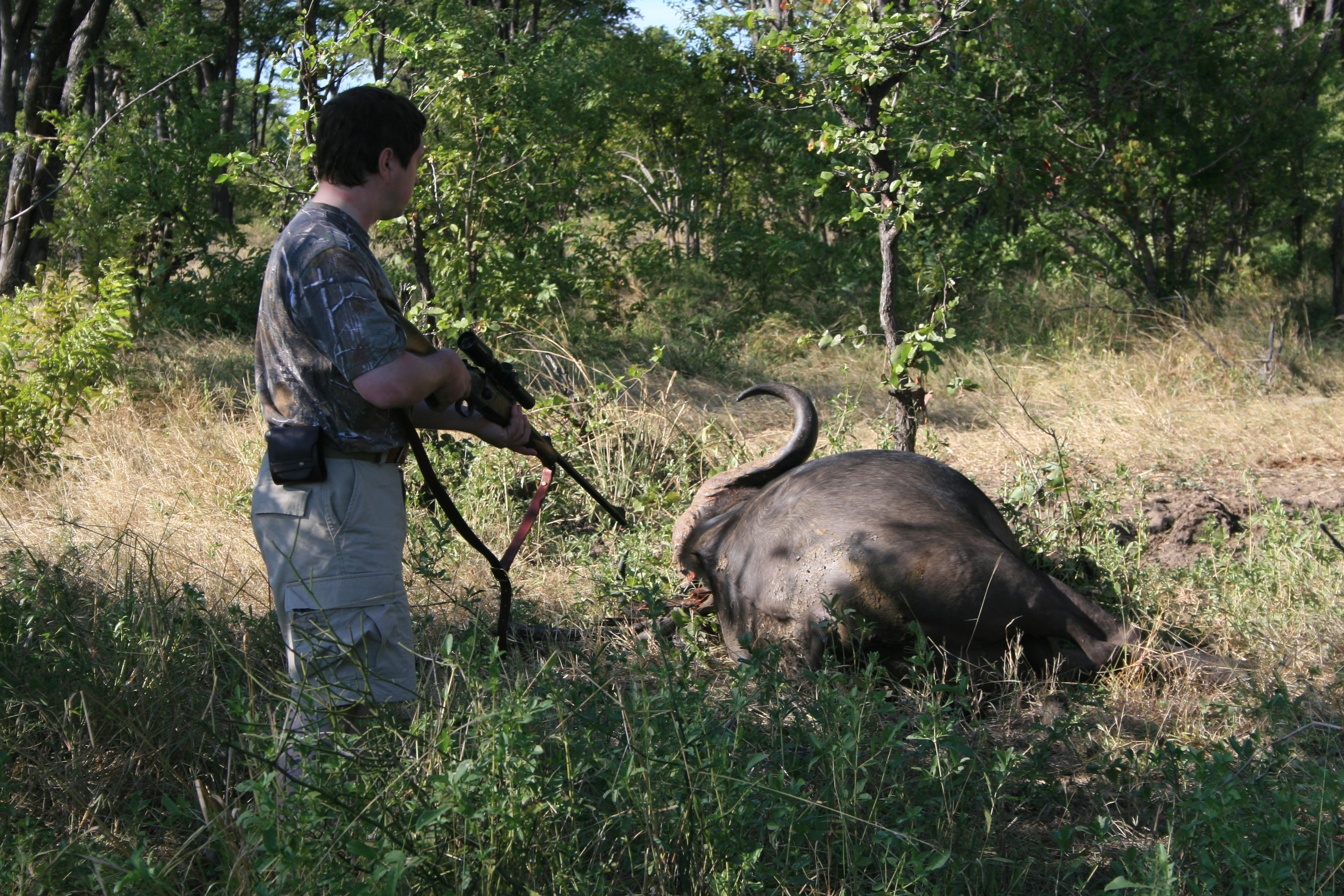 Hunter Approaching a Killed Cape Buffalo, Zambia